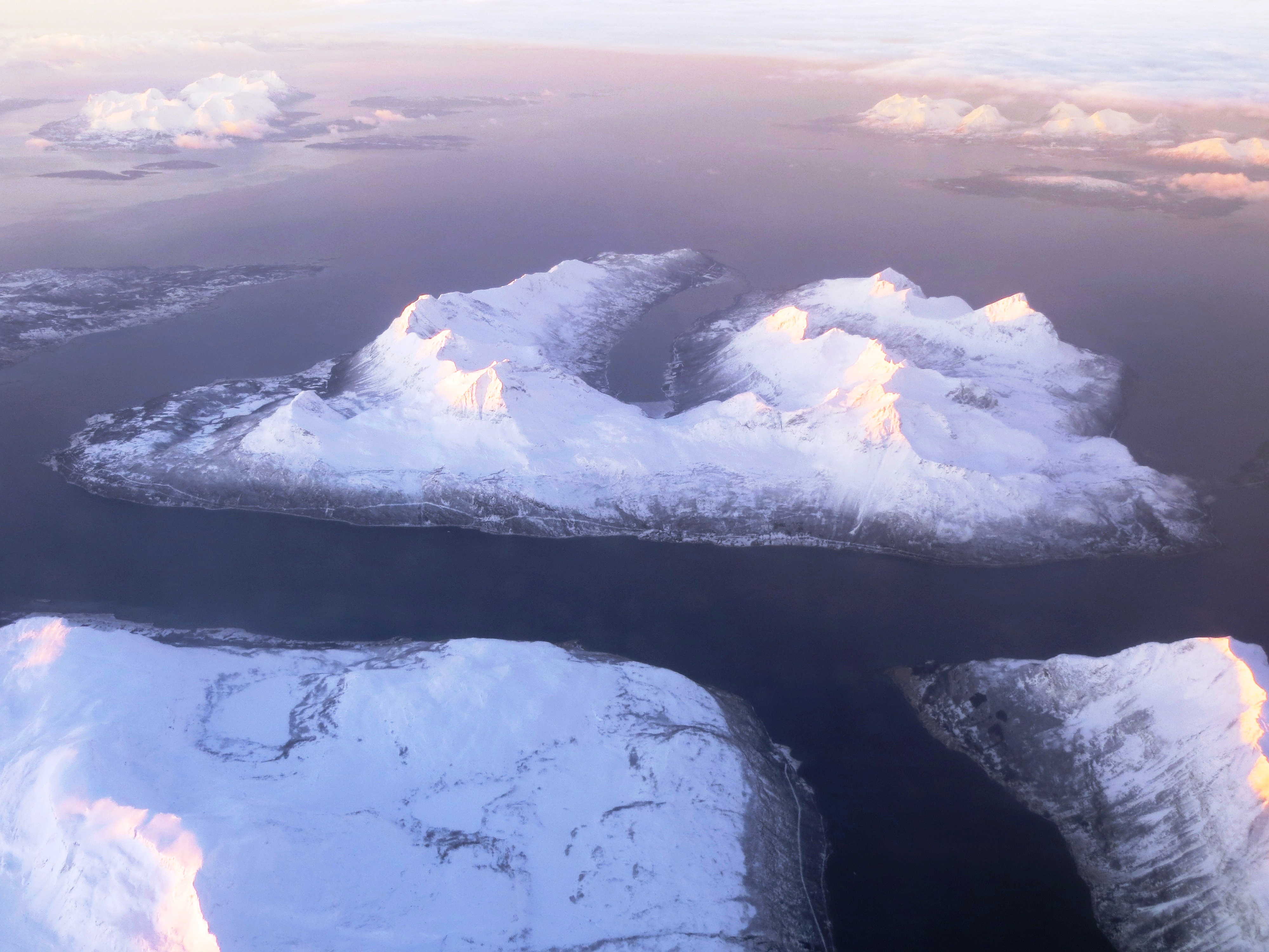 Aerial view from the east towards west, of the municipalities of Ibestad (islands) and Gratangen (mainlaid), southern Troms county - Norway. The distincctive island in the center is Andørja.